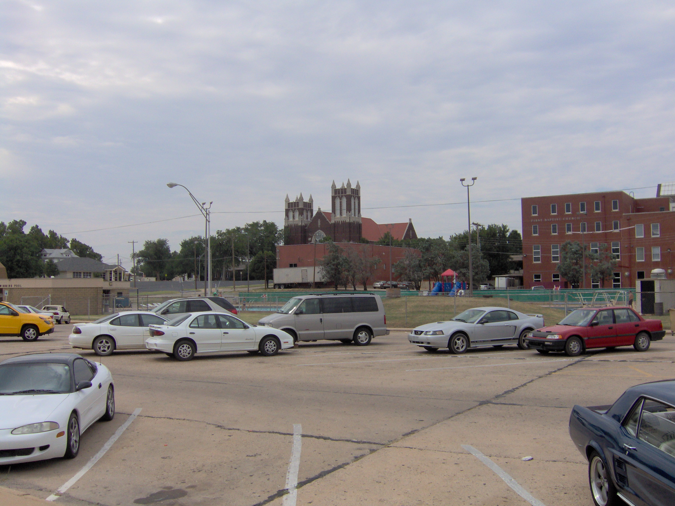 View of downtown Enid, Oklahoma, view from along Cherokee at the Denny Price Family YMCA.